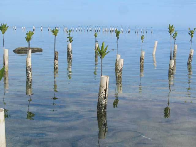 Isla Ratones Mangrove and Reef Restoration Project (Cabo Rojo, Puerto Rico